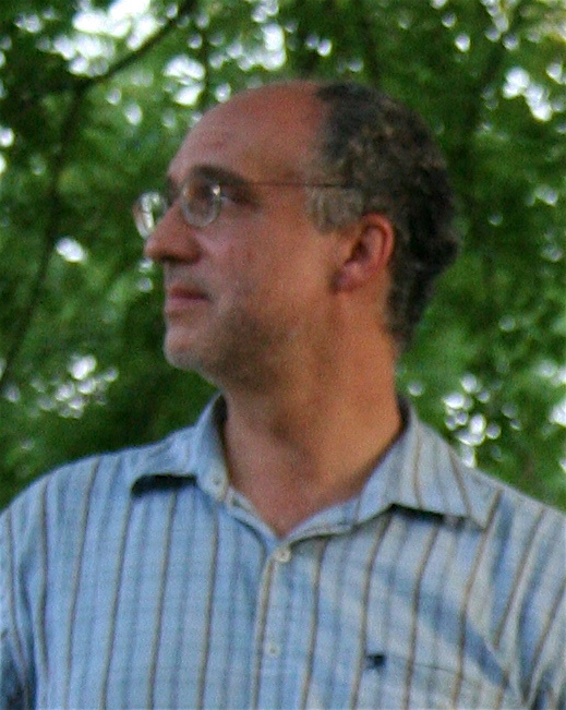 Michael Rose in 2008